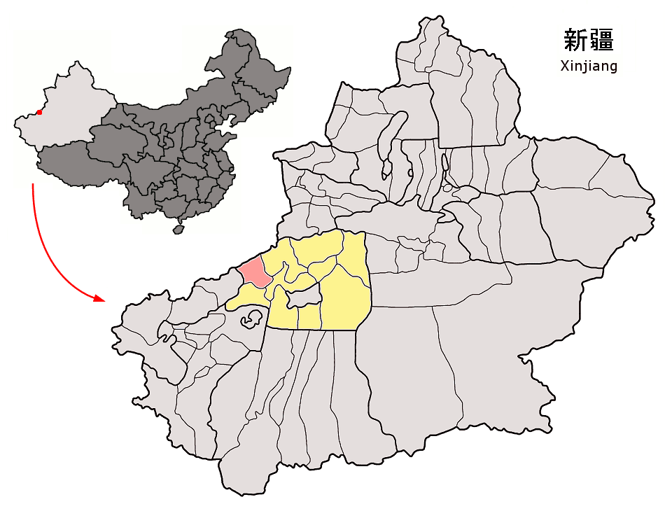 Location of Uqturpan County (pink) and Aksu Prefecture (yellow) within Xinjiang autonomous region of China Map drawn in september 2007 using various sources, mainly : Xinjiang Uygur autonomous region administrative regions GIS data: 1:1M, County level, 1990 Xinjiang Counties map from